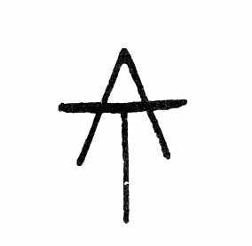 Scan aus Classified Signaturs of Artists This signature is believed to be ineligible for copyright and therefore in the public domain because it falls below the required level of originality for copyright protection both in the United States and in the source country (if different). In this case, the source country (e.g. the country of nationality of the signatory) is believed to be England. Note that this tag cannot be used on all signatures, as not all signatures are copyright-free. See Commons:When to use the PD-signature tag for an explanation of when the tag may be used.